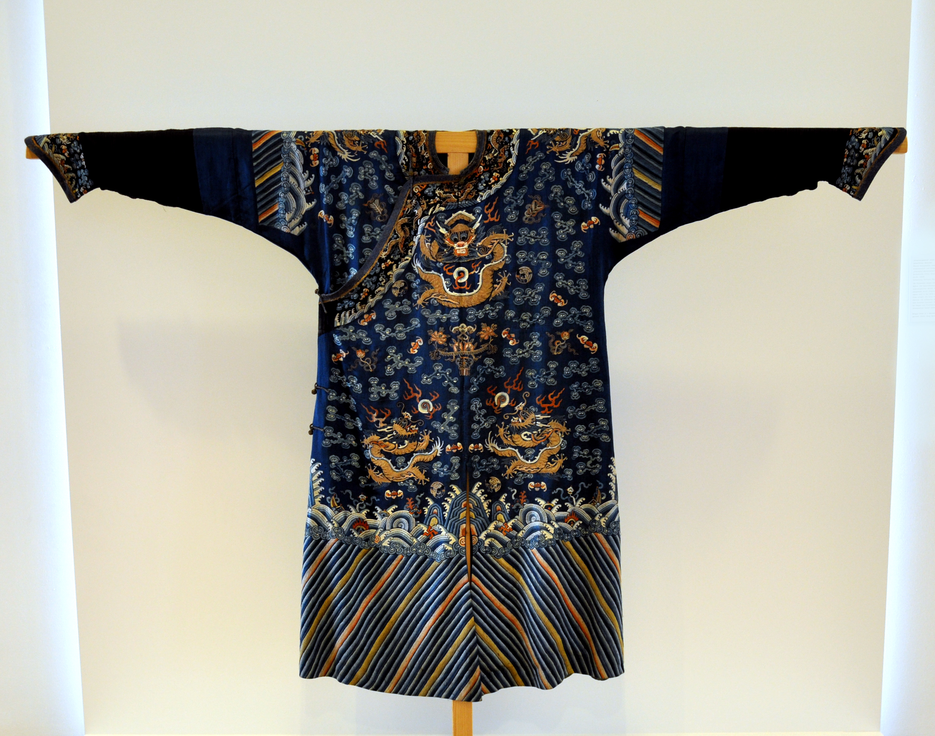 „Dragon Robe“ of a Mandarin, an imperial civil servant; China, Qing Dynasty; late 19th century; Museum für Angewandte Kunst Frankfurt am Main, Inv. No. 14629 (donated by Hermann Reich)